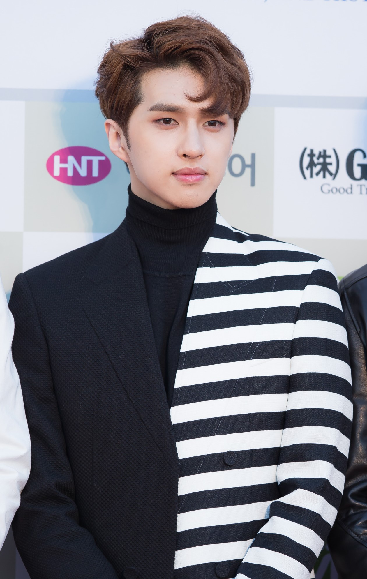 Ken at Gaon Chart K-pop Awards red carpet, on February 17, 2016.